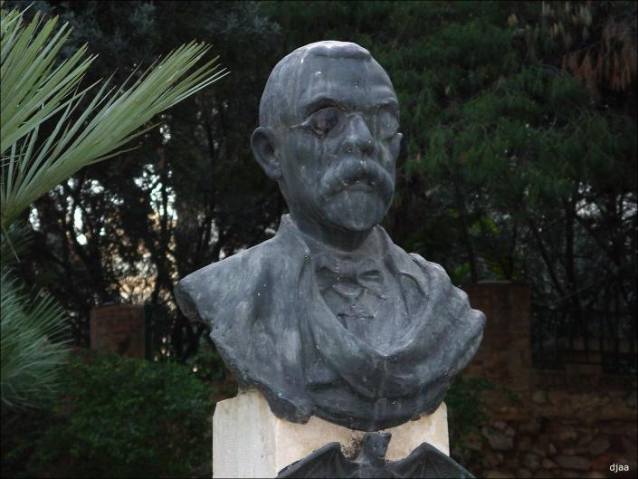 Bust of Constantí Llombart from Valencia's nursery (Vivers de València)